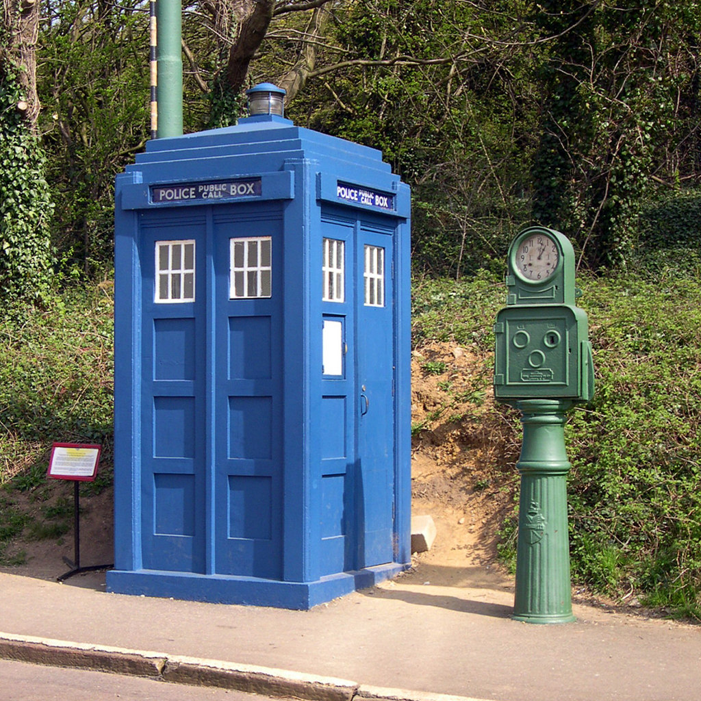 Police Public Call Box and Bundy Clock at Crich Tramway Village